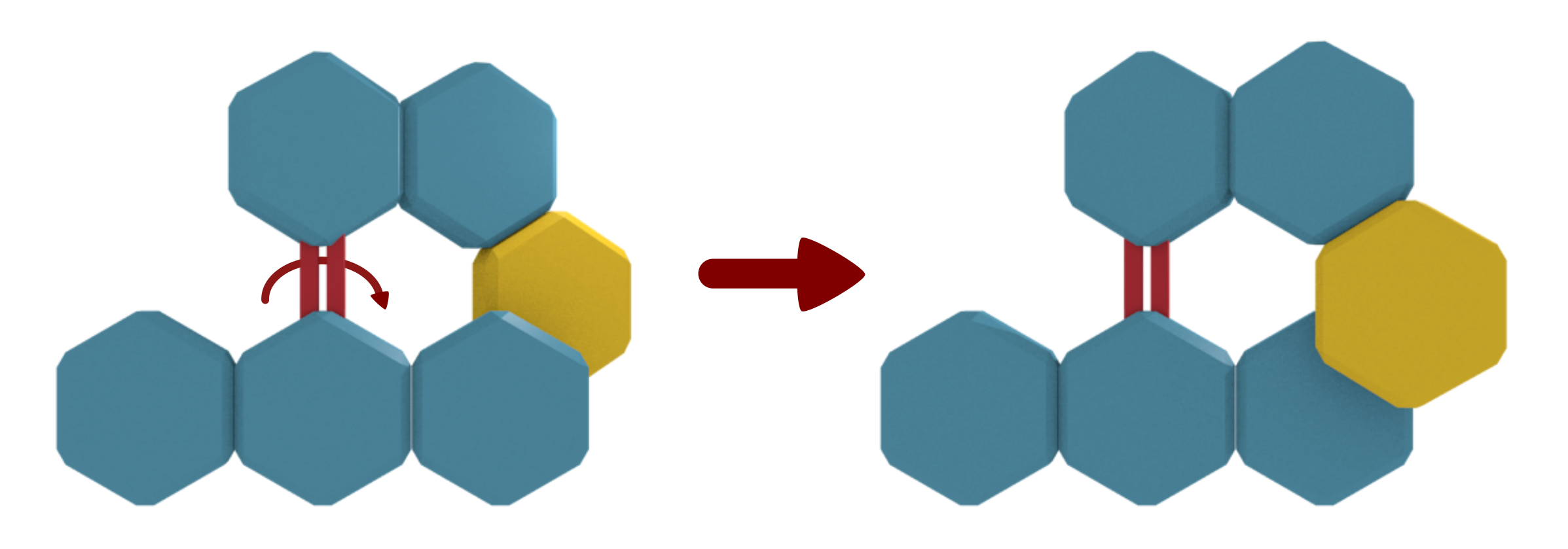 Overcrowded alkane molecular motor.